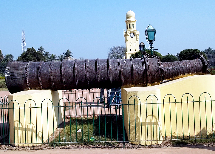 Bachawali cannon at Hazarduari Palace Murshidabad